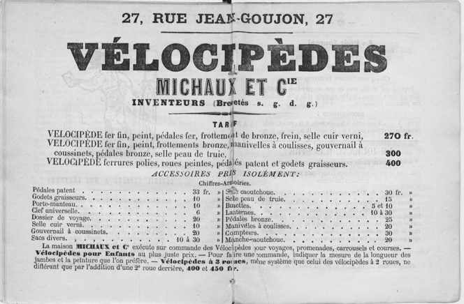 Price list of Michaux & Cie Paris published in Almanach des vélocipèdes illustré, 1869.